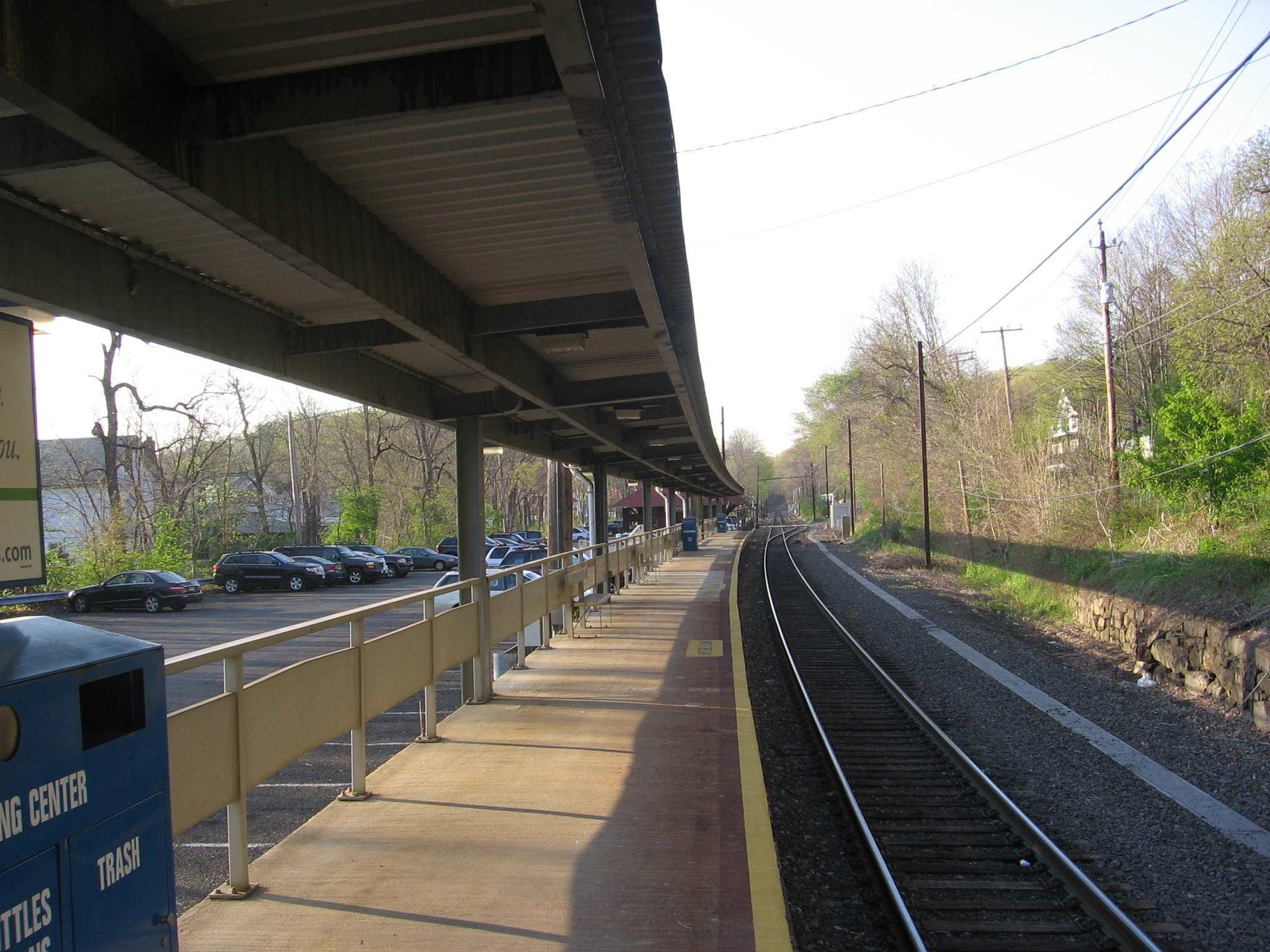 Looking north (toward Danbury) at the Branchville Station. The switch for the passing loop is visible as is the cover for the new switch and control circuitry.